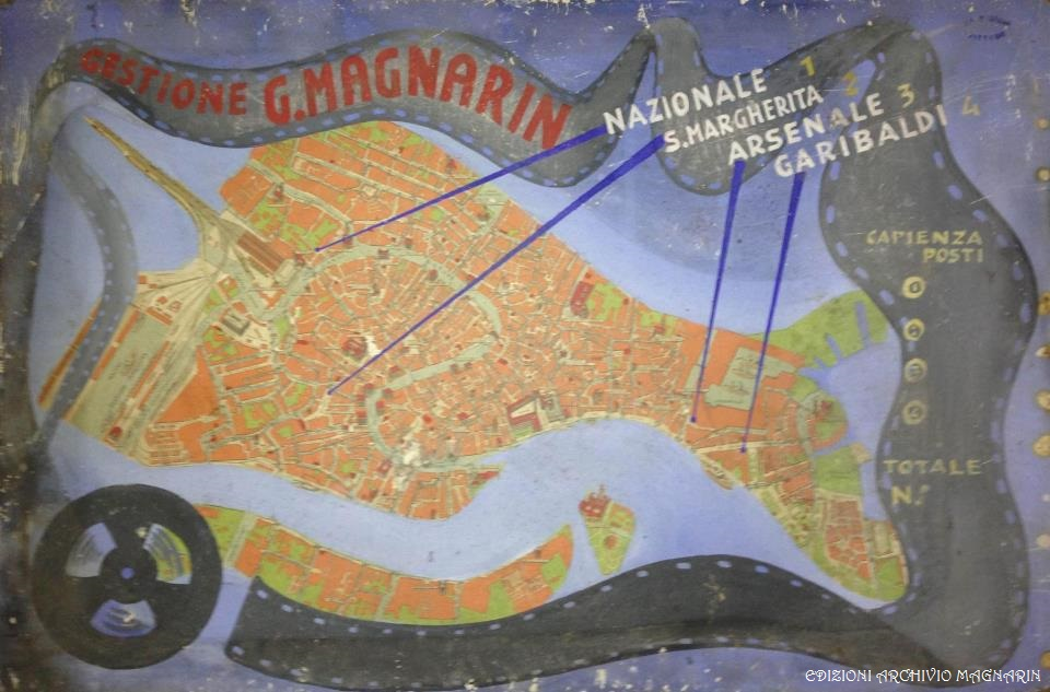 Cinema poster Ditta Magnarin